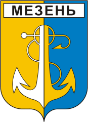 Mezen (Arkhangelsk oblast), coat of arms (1980s)